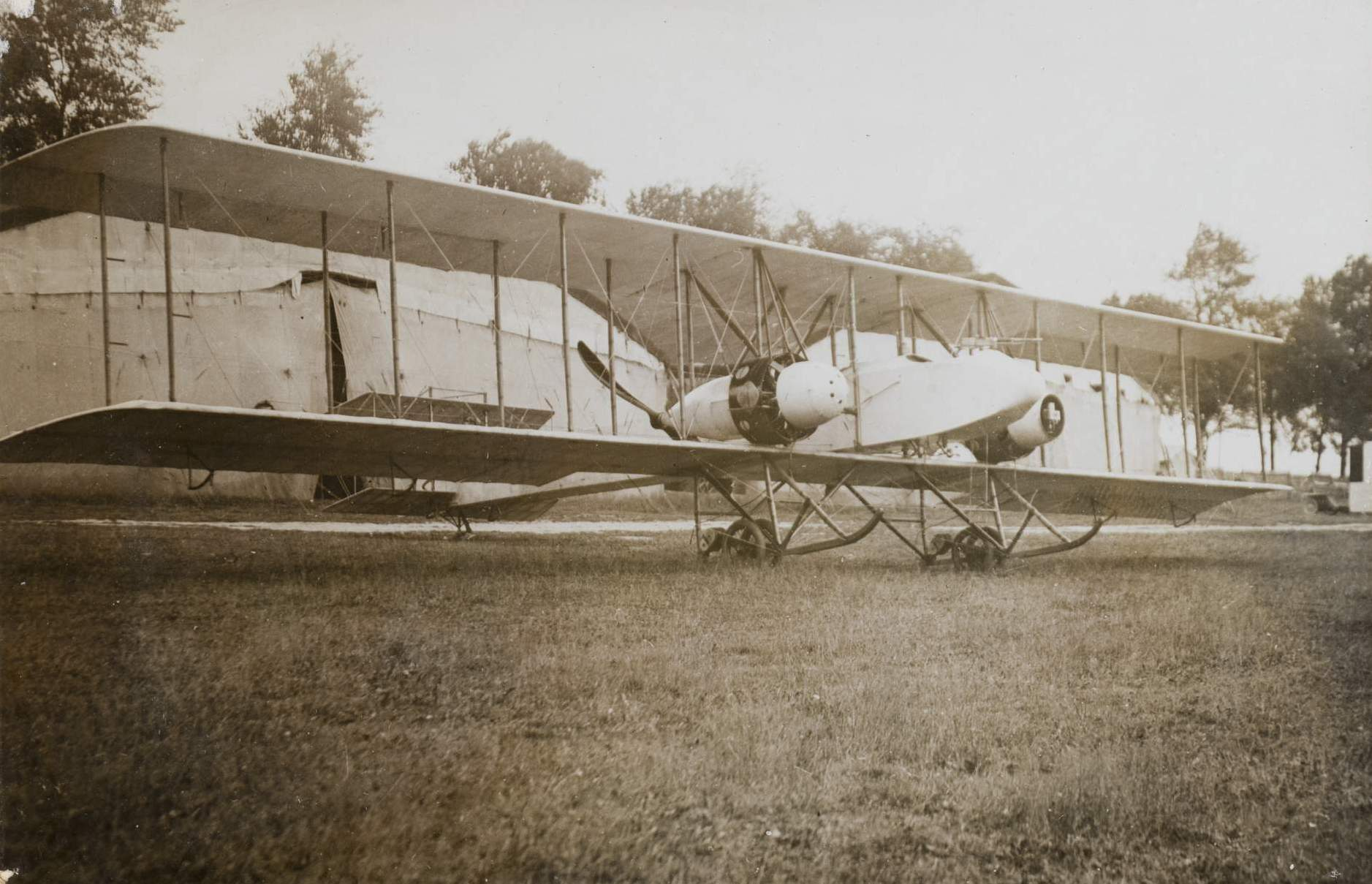 Aéroplane blindé et muni de mitrailleuses construit par le laboratoire militaire de Chalais Meudon.